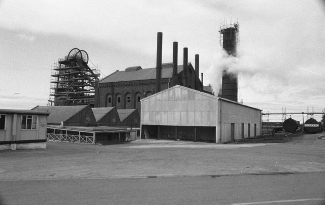 Haig Colliery Photographed from much the same position as before. The water-tube boiler house has been demolished and the chimney is coming down "brick-by-brick". There is a new boiler house with four short stacks in the foreground. The colliery is still in production with three years still ahead of it. The two steam winders ran till the end and are now preserved.